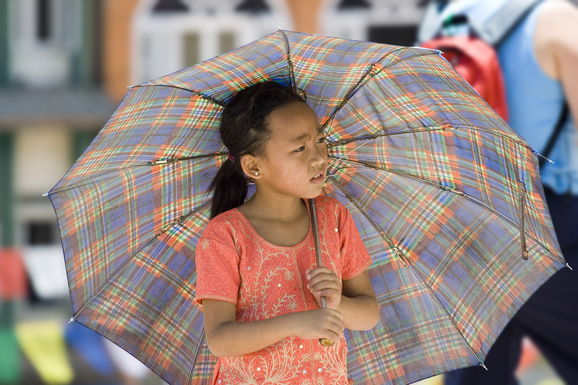 Young Girl with Umbrella in Kathmandu, Nepal.